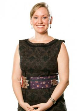 Larissa Waters, Greens Senator for Queensland